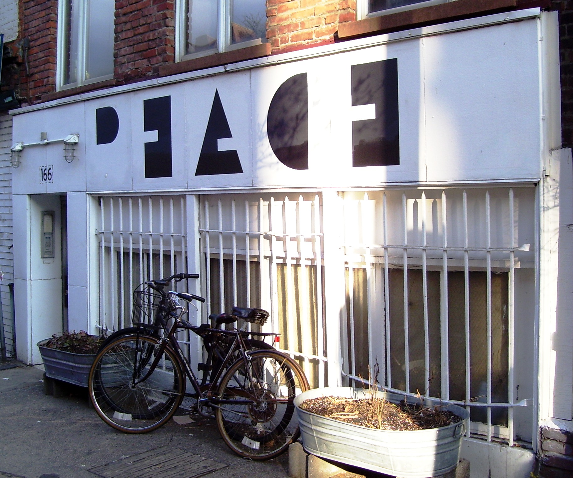 "Peace" at 166 Avenue A between East 10th and 11th Streets in the Alphabet City area of the East Village neighborhood of Manhattan, New York City.